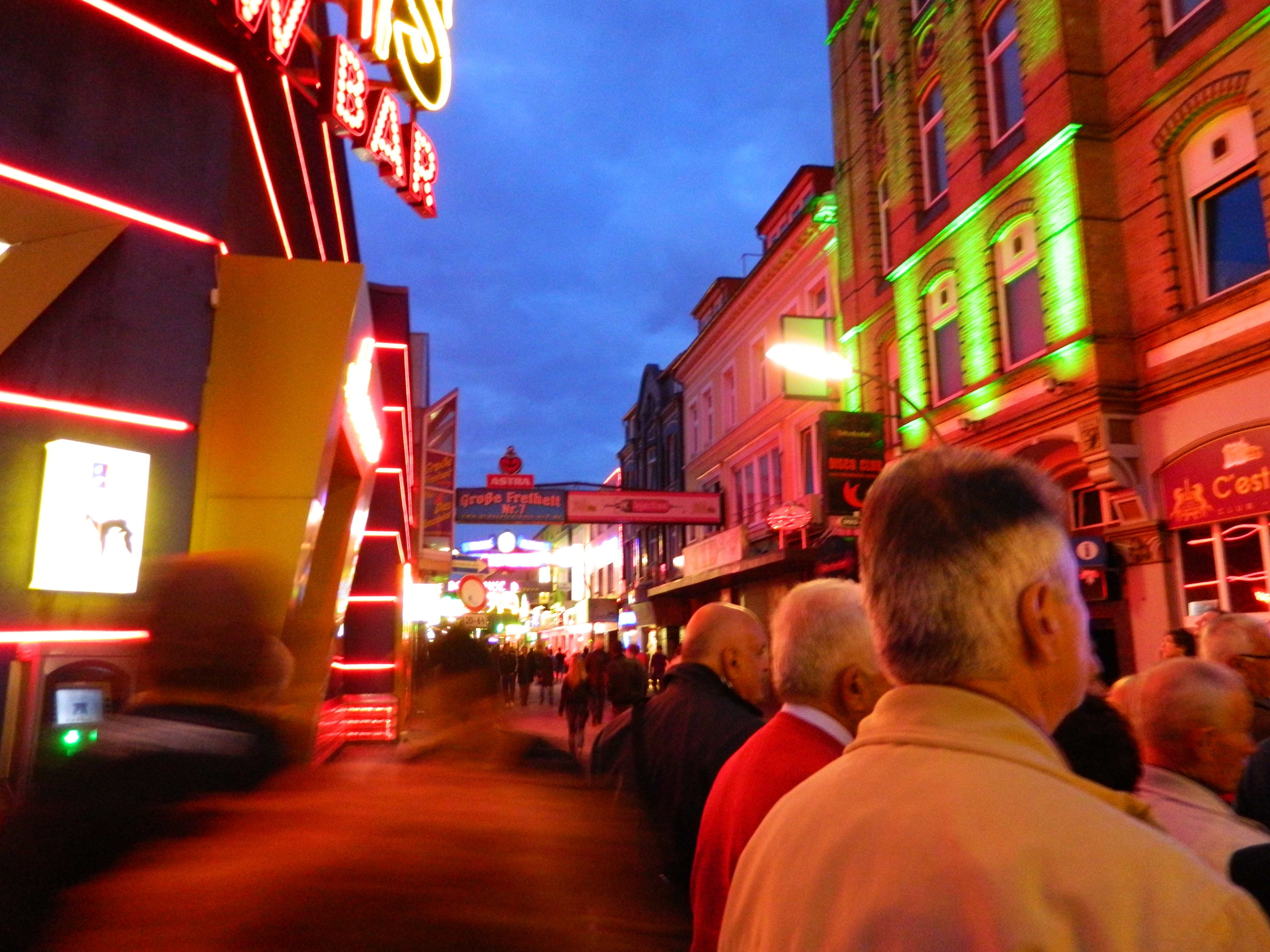 Hamburg, Große Freiheit